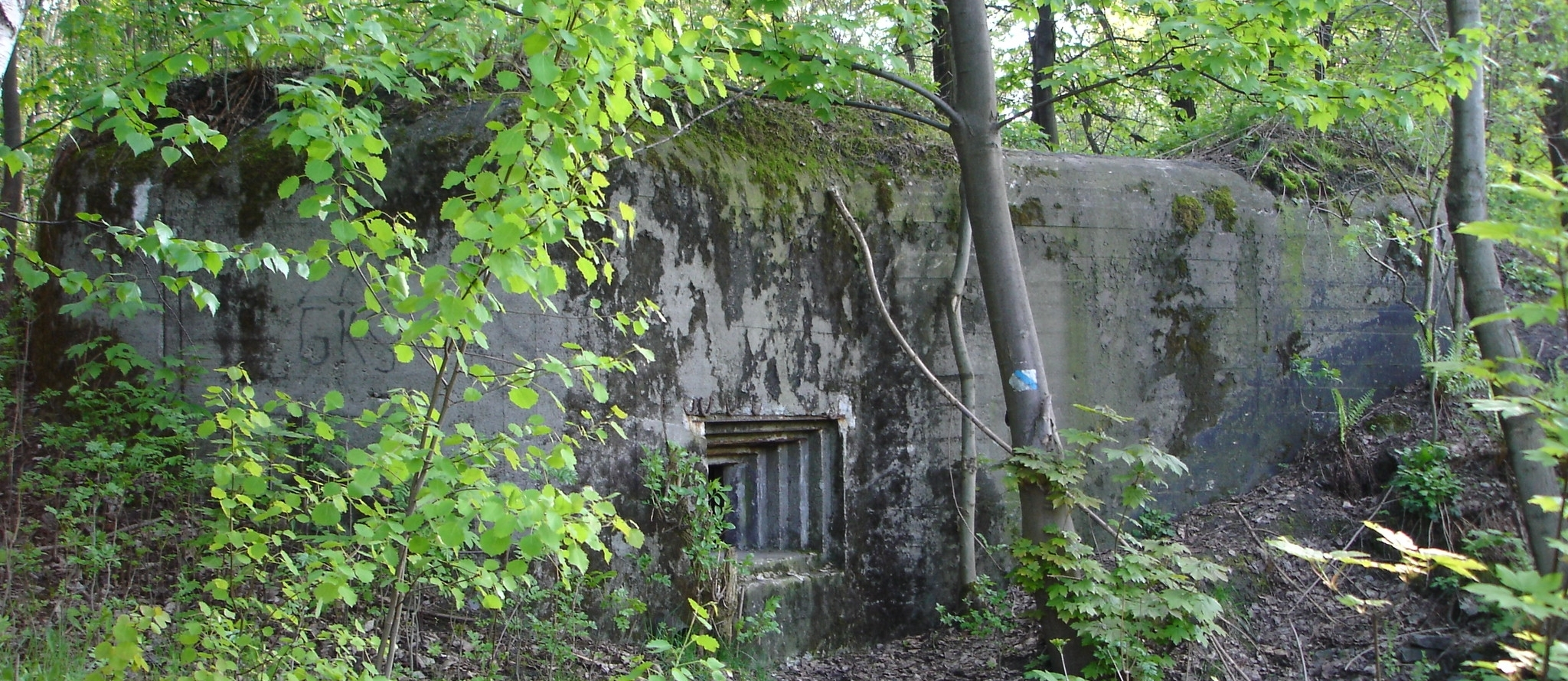 Bunker located in Bytom Łagiewniki (Hubertus)